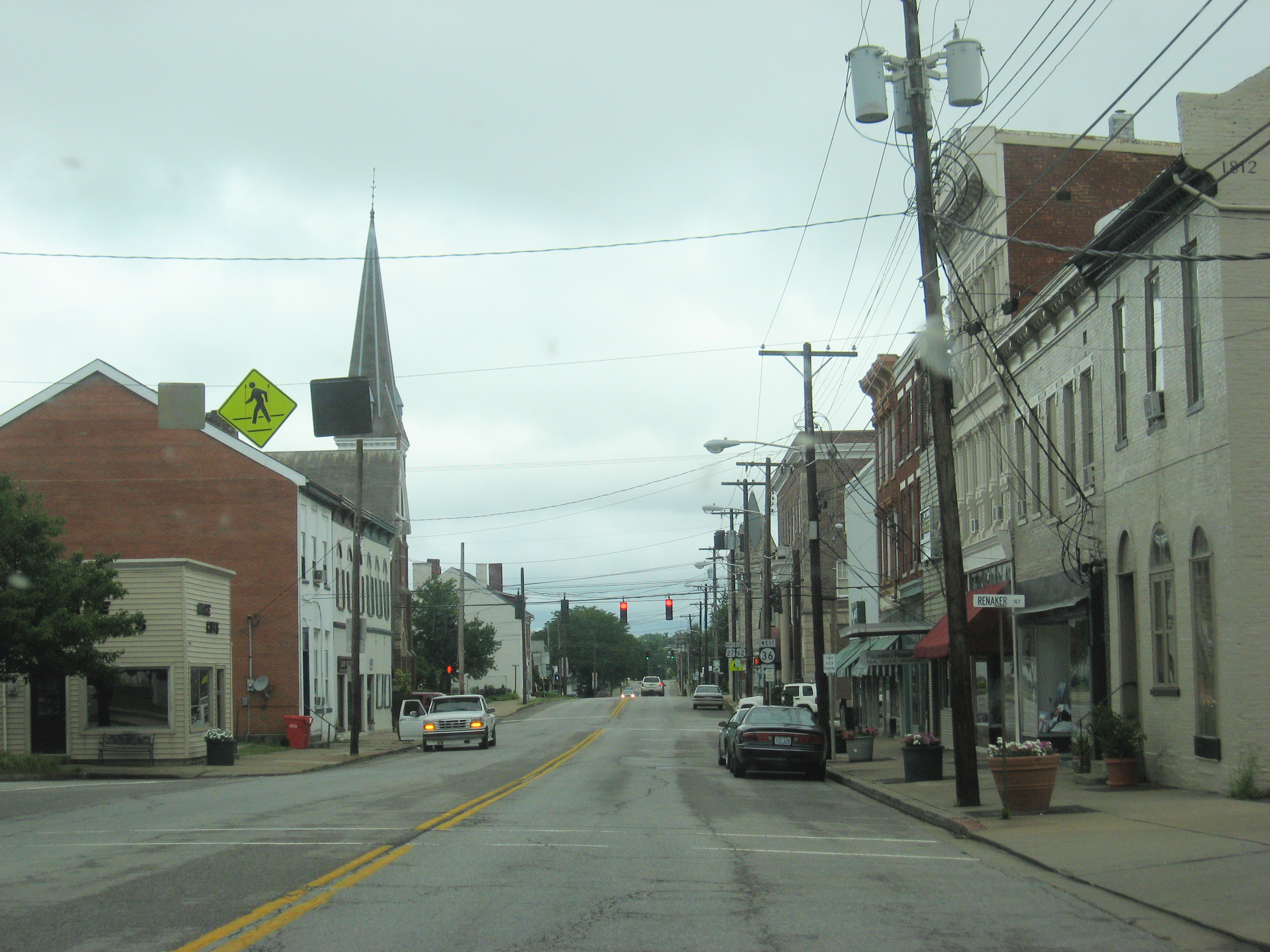 Downtown Cynthiana (Cynthiana, Kentucky, USA)